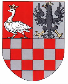 Coat of arms of Lika-Krbava county of Kingdom of Croatia-Slavonia